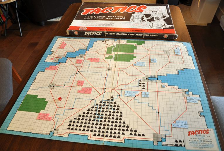 The original version of the board game, Tactics released in 1954, by Charles S. Roberts. klaytonz